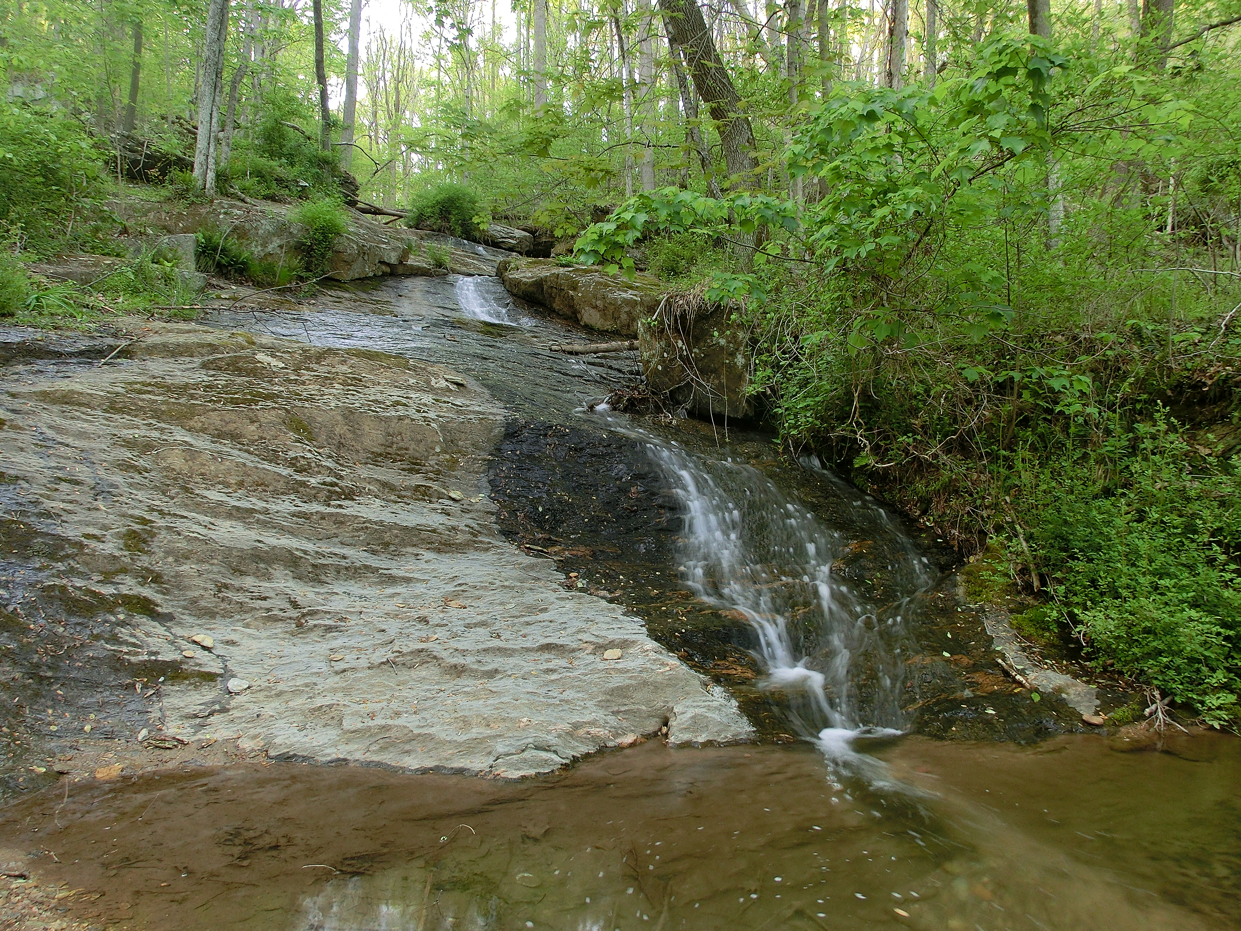 Raven Rock Falls is a little-known waterfall in Northern Maryland